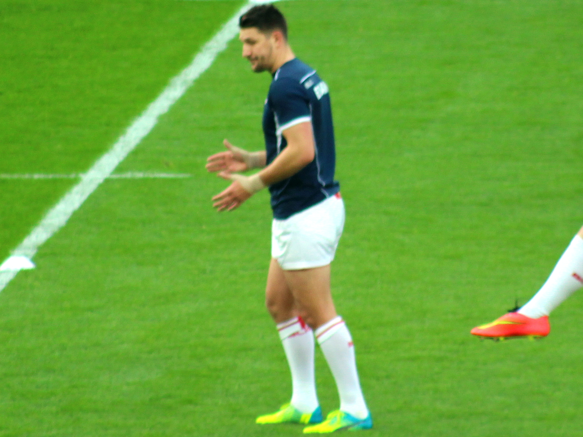 Gareth Widdop